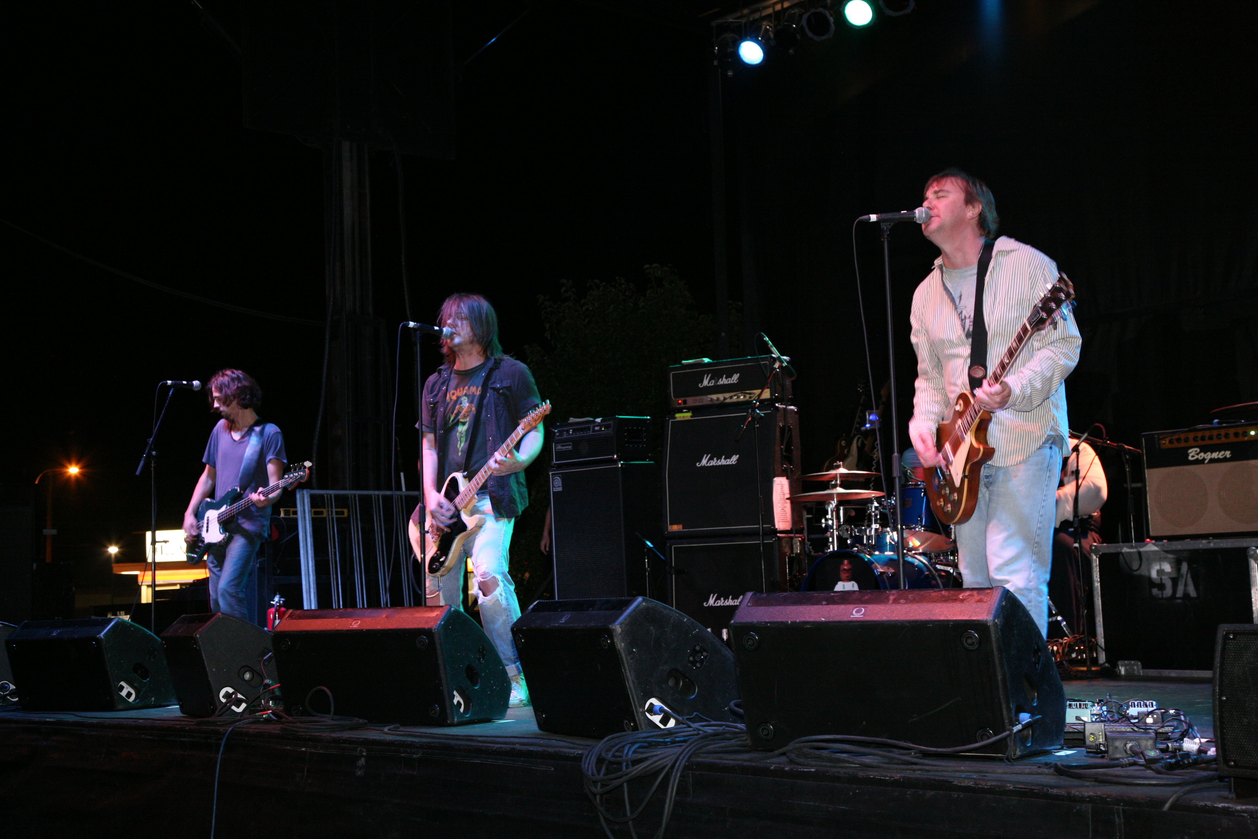 Soul Asylum in Urbana, Illinois. Right: Dan Murphy, middle: Dave Pirner